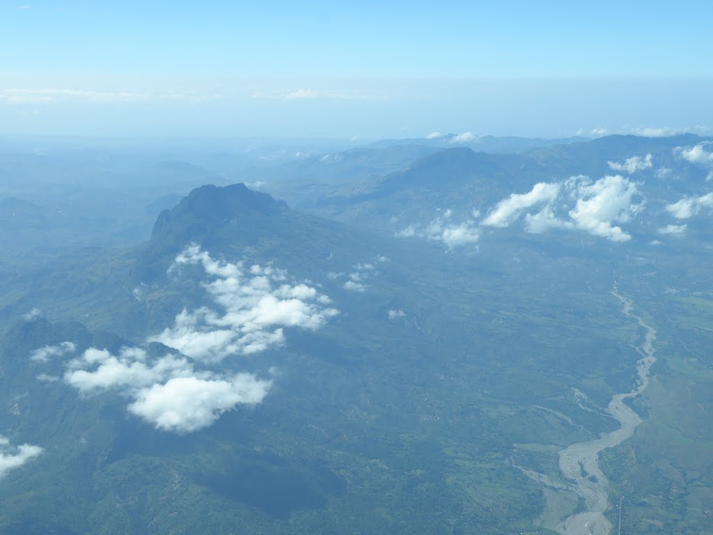 View towards Mt Caelaco, Maliana and Loes River